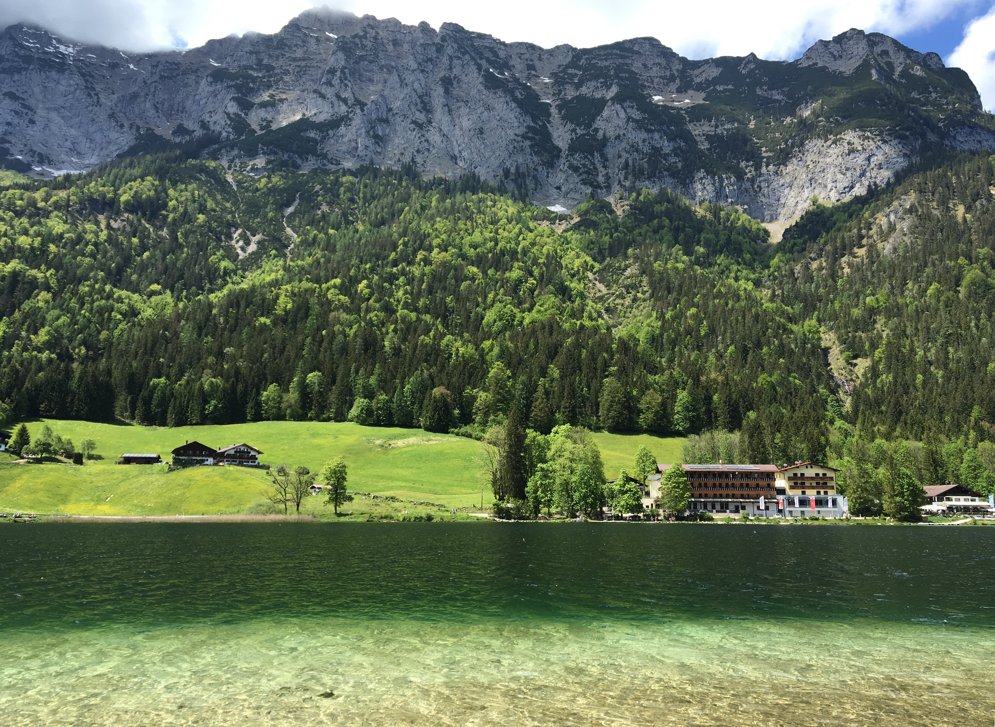 Hintersee in Ramsau (Berchtesgaden), Germany